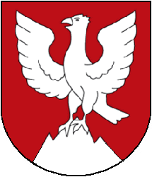 Coat of arms of Thal District, Canton of Solothurn, Switzerland